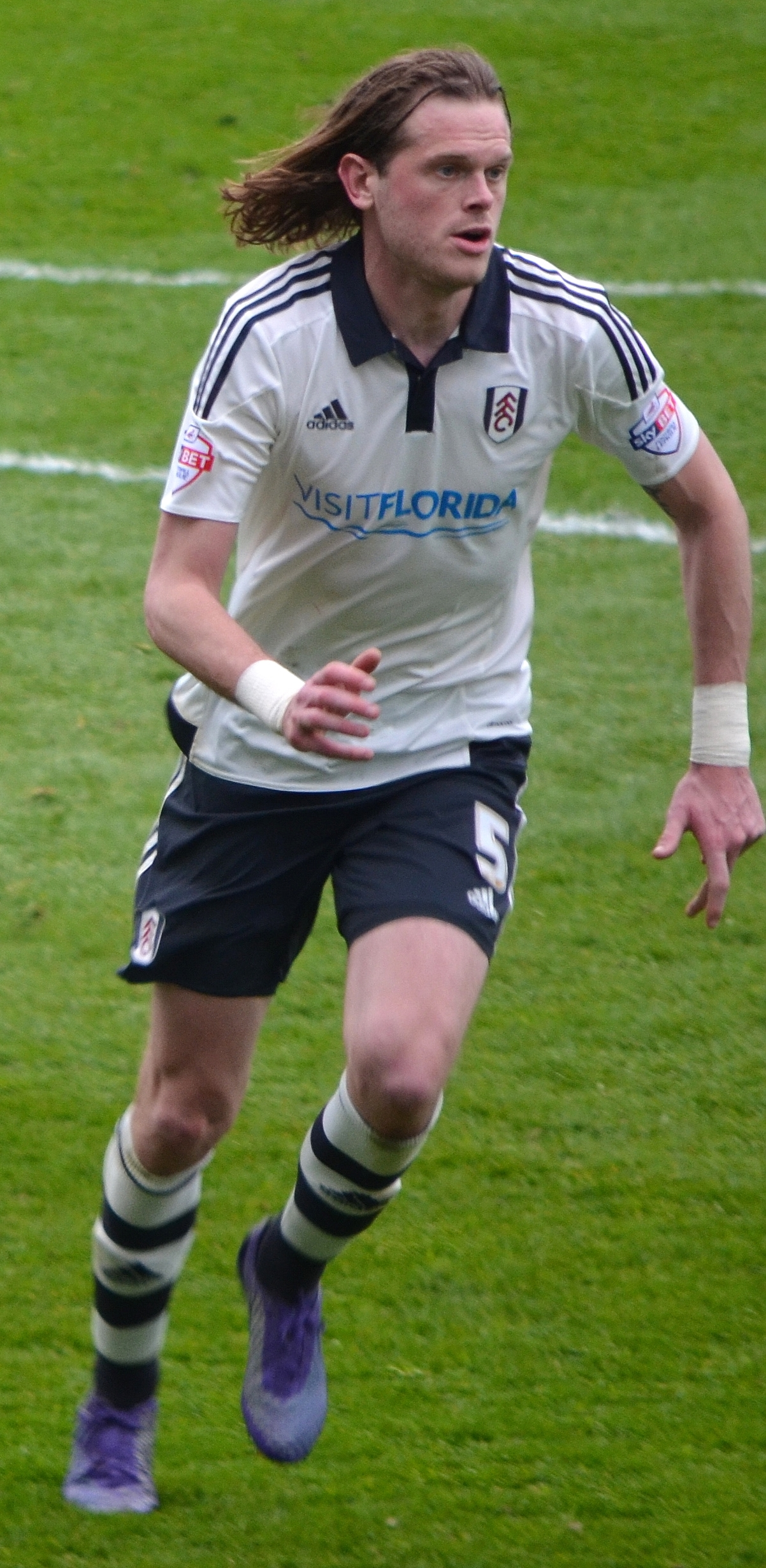 Richard Stearman playing for Fulham against Milton Keynes Dons at Craven Cottage, London on 2 April 2016